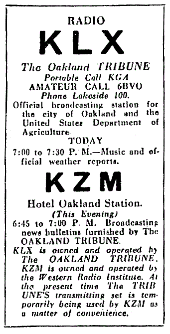 Schedule information for radio stations KZM and KLX in Oakland, California, which from mid-1922 to November 1923 shared facilities located at the Hotel Oakland.